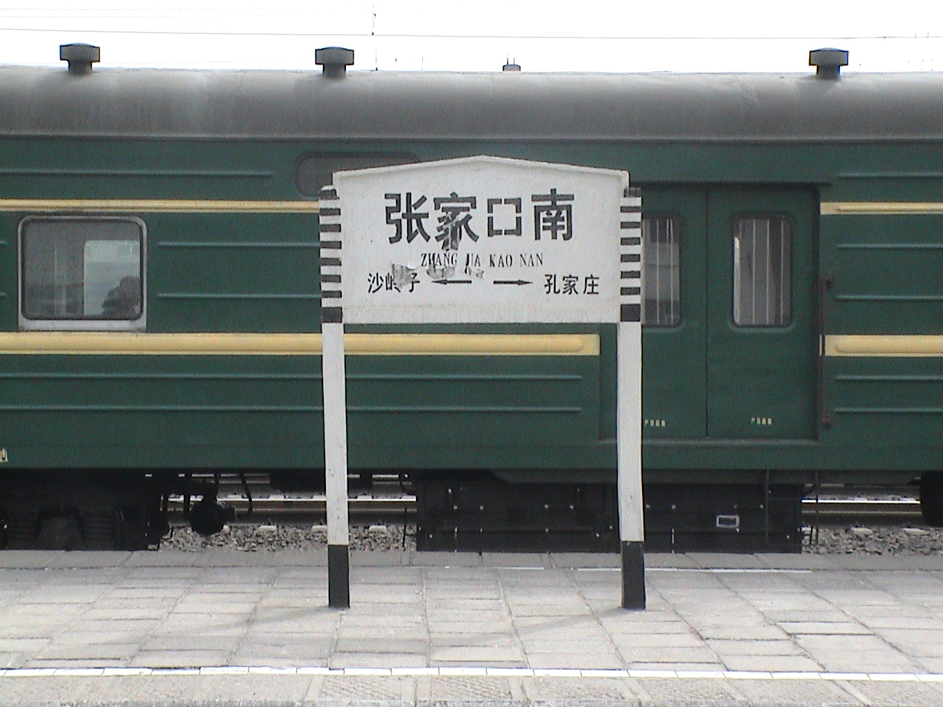 Zhangjiakou south railway station This image was taken by User:Yaohua2000 at 2006-04-16 06:28:32 UTC. Do not trust the timestamp in JPEG metadata, the time was 174 seconds after the clock of the camera.